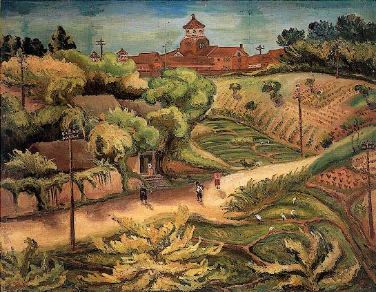 This painting combines narrative and lyrical meaning , overlooking the angle formed by the nearly pulled pulled away to a plane with a decorative technique successfully expressed a sense of meandering rhythm . Point of view character borrowed from the ink, tradition and feel cumbersome , lively and rich tone , feeling dizzy before painting remove Lieyang under the sky . This is one of a series of freshwater scenery depicting freshwater scenery this period , the peak period after his return to Taiwan self-learning , as this is also a masterpiece of his mature style .